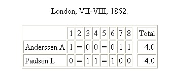 World_Chess_Championship_1862_Anderssen_-_Paulsen_Match